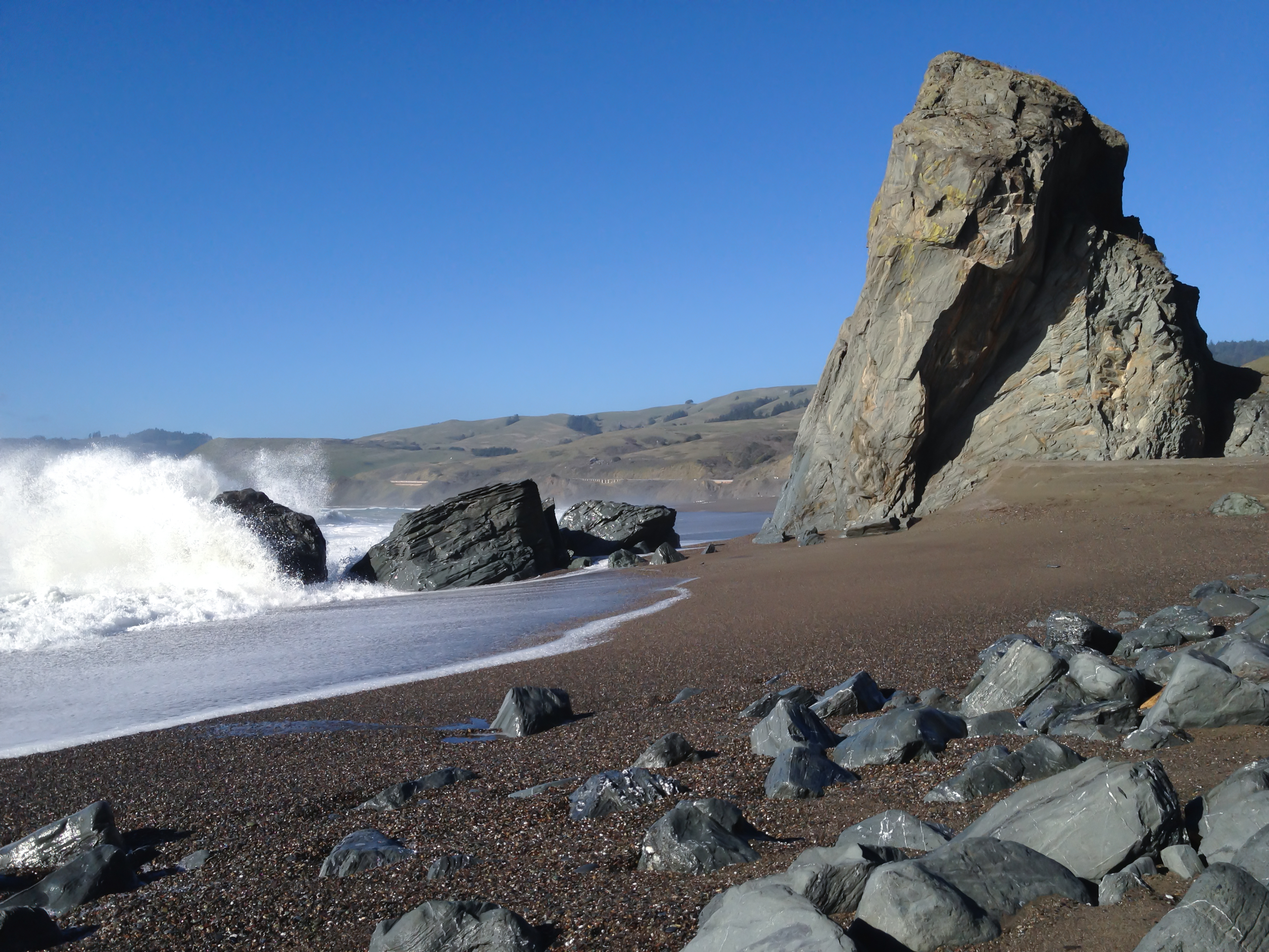 Surf and rocks at Goat Rock Beach, Sonoma County, California.